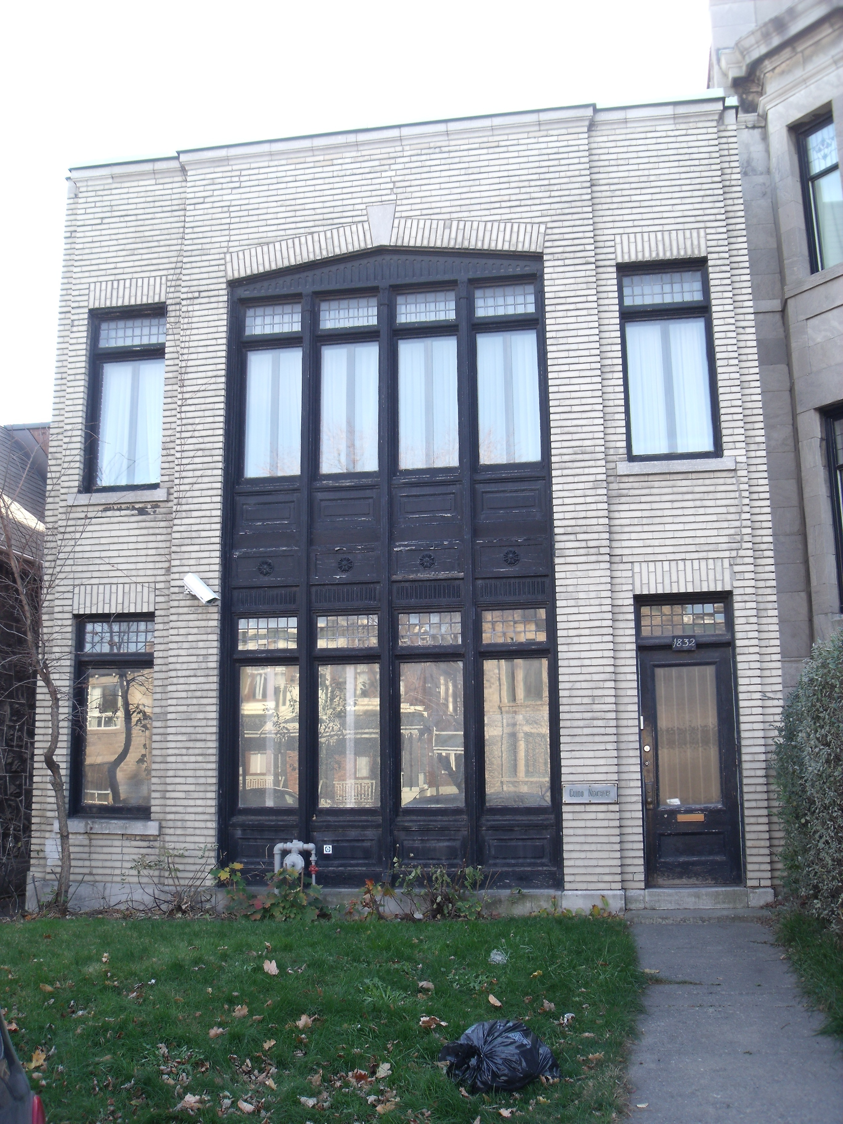 Nincheri Studio, 1832, Pie-IX Boulevard, Montreal, Quebec, Canada.